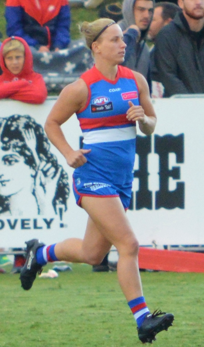 Jaimee Lambert playing for the Western Bulldogs in Round 3 2017